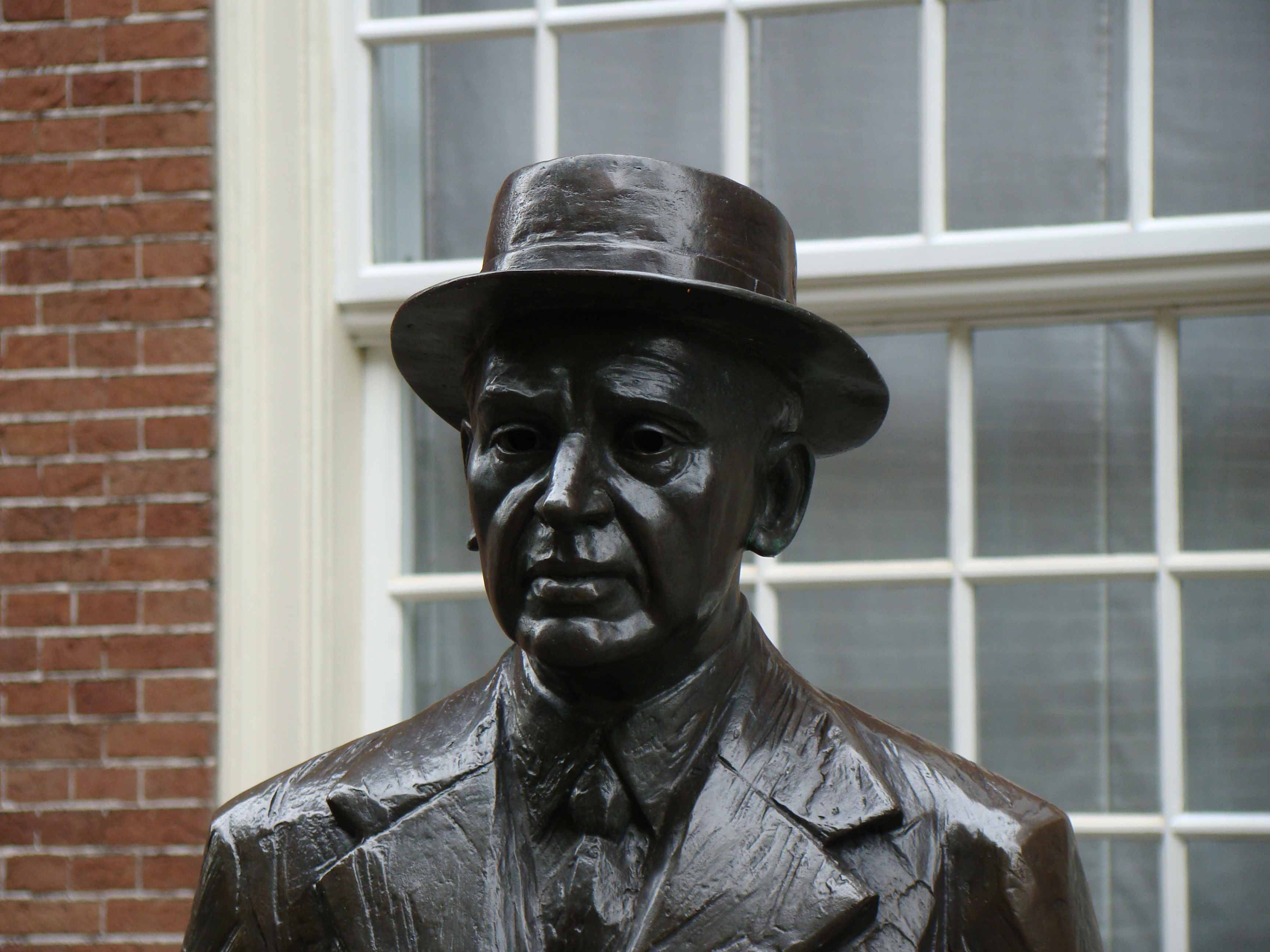 Detail of the statue of Louis Couperus by Kees Verkade in The Hague (Netherlands)